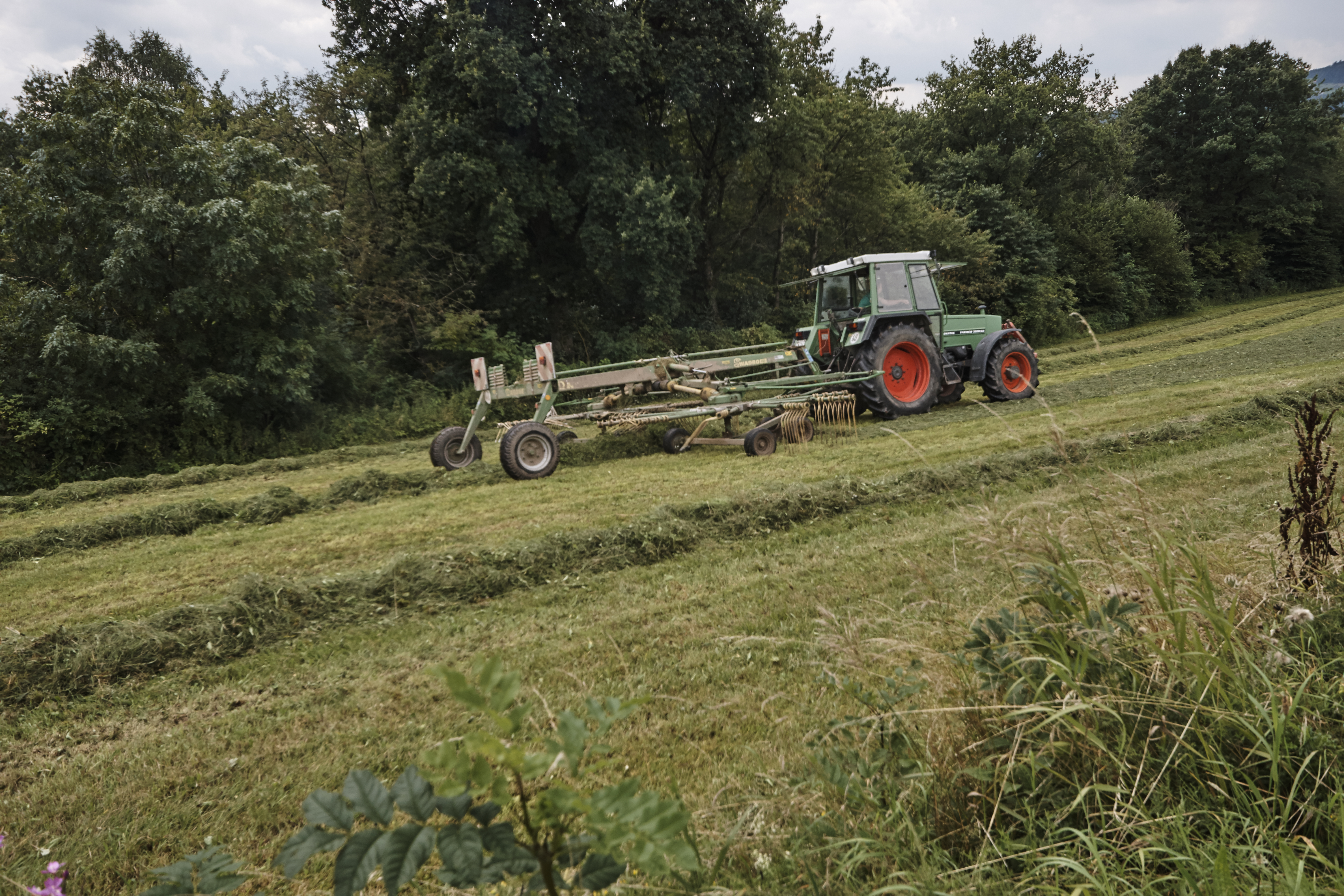 Fendt Farmer 309LSA mit Krone Swadro Mittelschwader